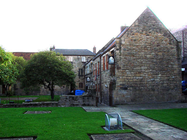 Blackfriars, Newcastle upon Tyne. Blackfriars was a Dominican Friary, founded in the 13th Century. It is one of the most complete and best preserved Friaries in England. After Henry VIII dissolved the monasteries, Blackfriars became a meeting place for members of Craft Guilds.